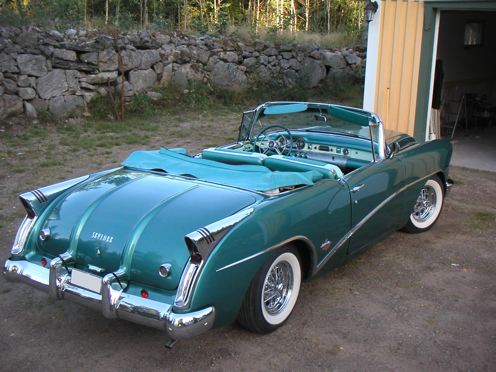 Buick Skylark 1954